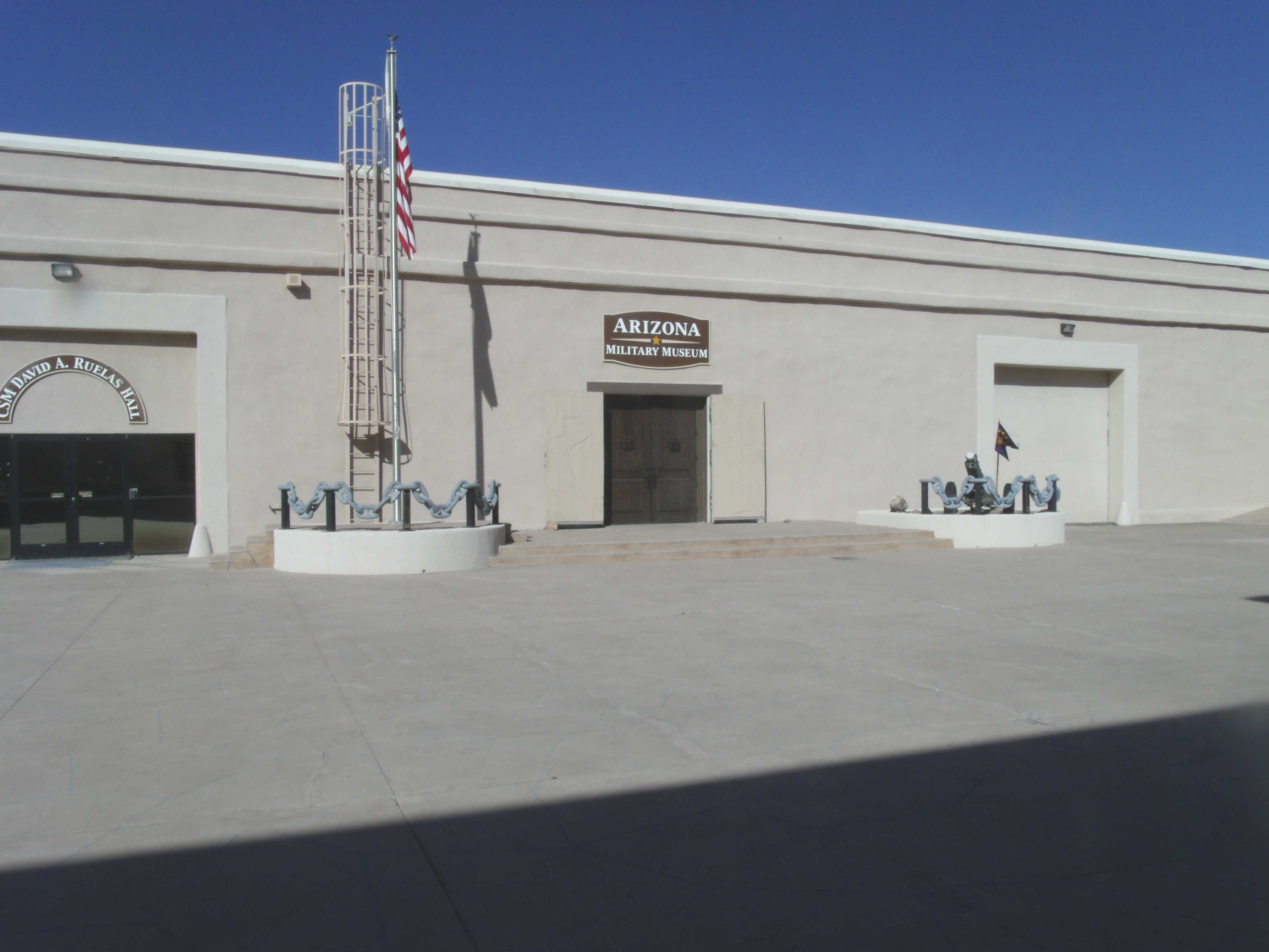 Arizona Army National Guard Arsenal raw adobe building was constructed in 1936 and is located at 5636 E. McDowell Rd. in Phoenix, Arizona. It served as National Guard arsenal until WW II when it was converted into a maintenance shop German prisoner of war located in what is now the Papago Park Military Reservation. The building was listed in the National Register of Historic Places March 31, 2010, ref.: #10000108.